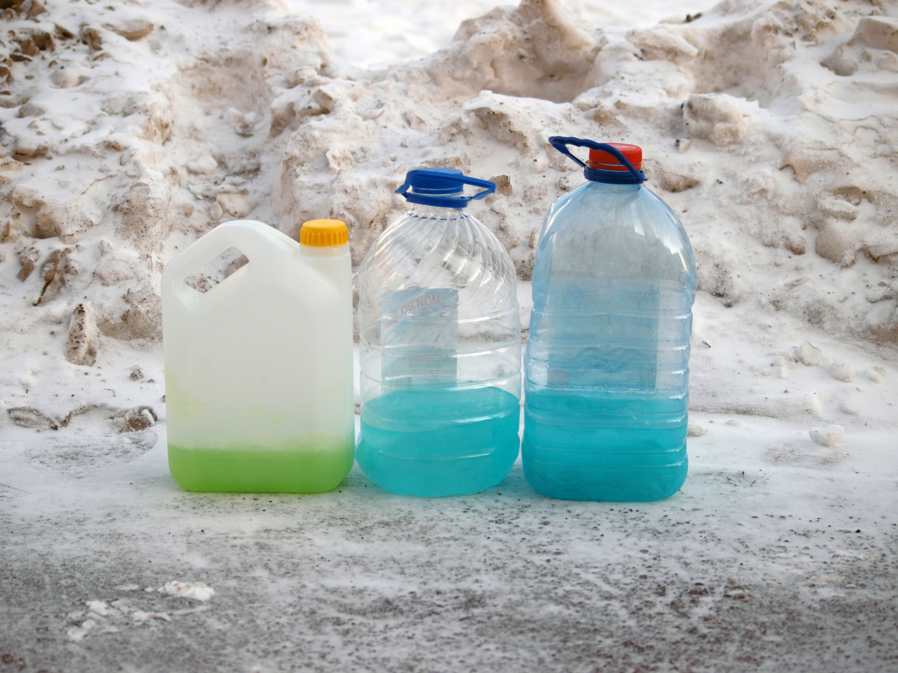 Freezing winter windshield fluid